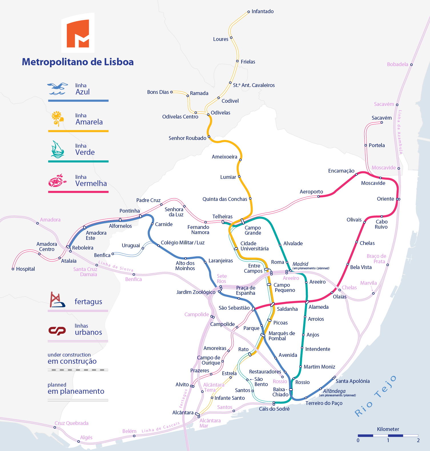 Metro Lisboa Route Map with CP Suburban Railway Lines